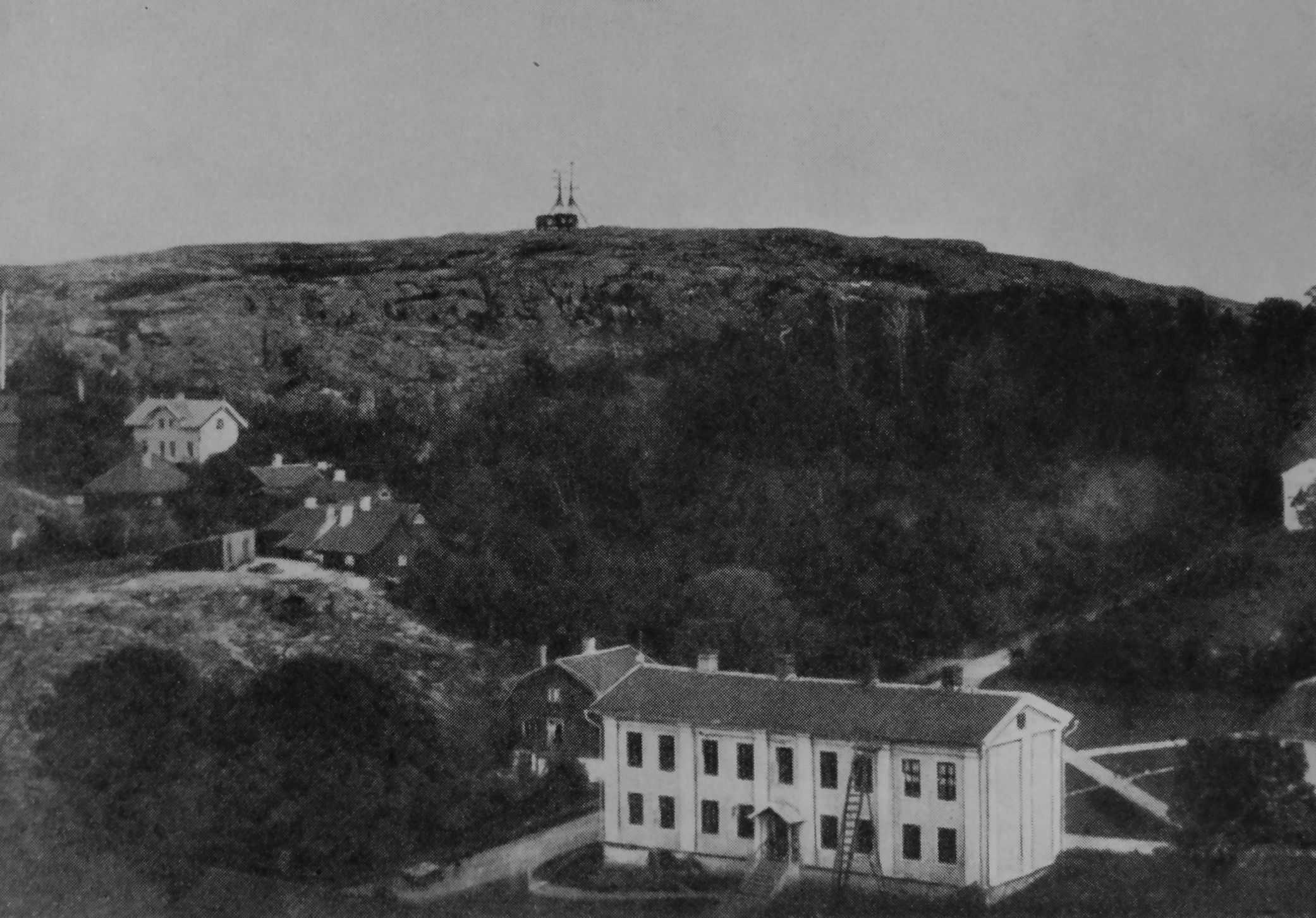 Nya Varvet navalbase near Gothenburg, Sweden. Picture taken from the hill "Stora Billingen" with pub "Nobis" and optical telegraph.